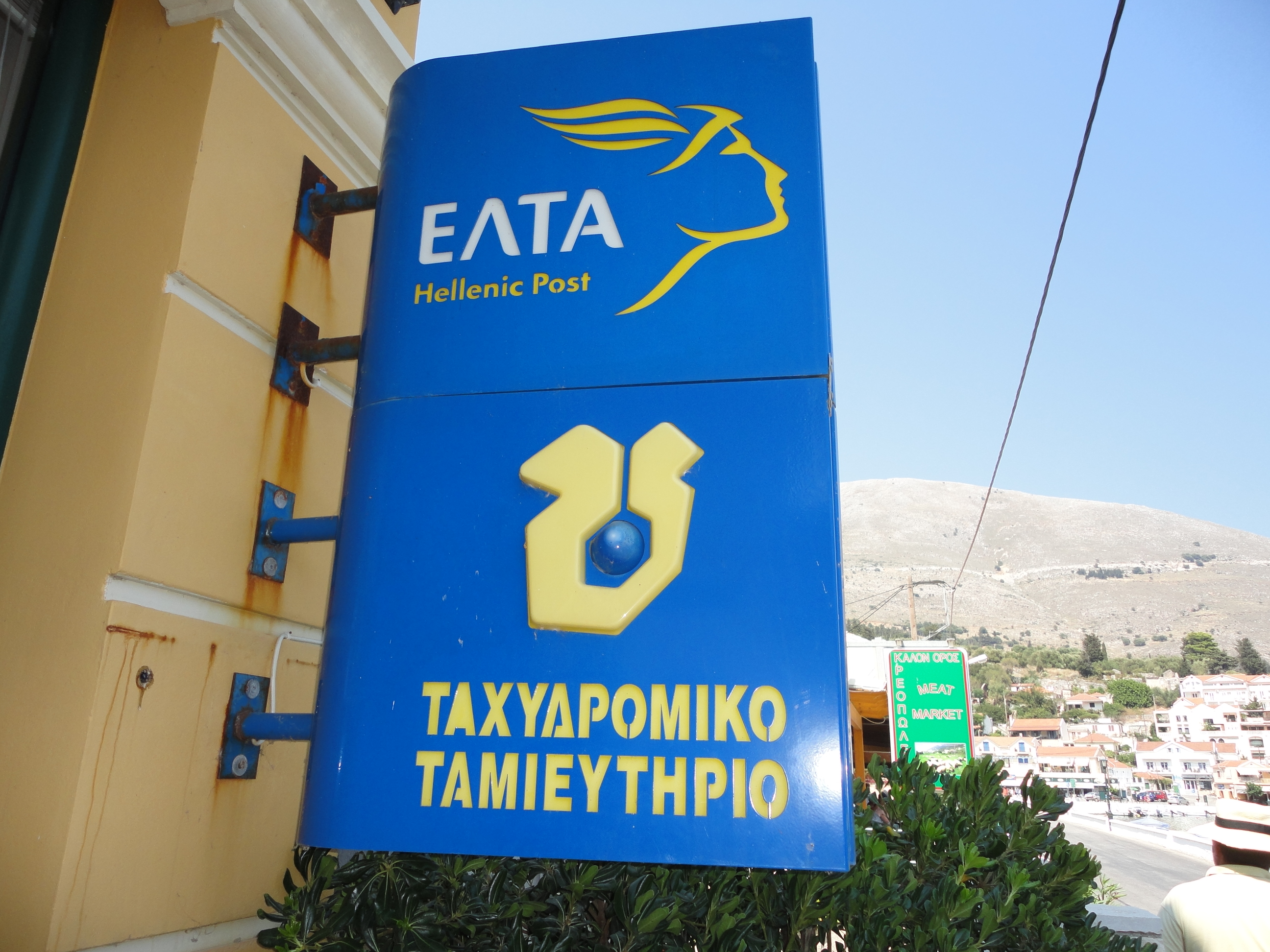 Agia Efimia